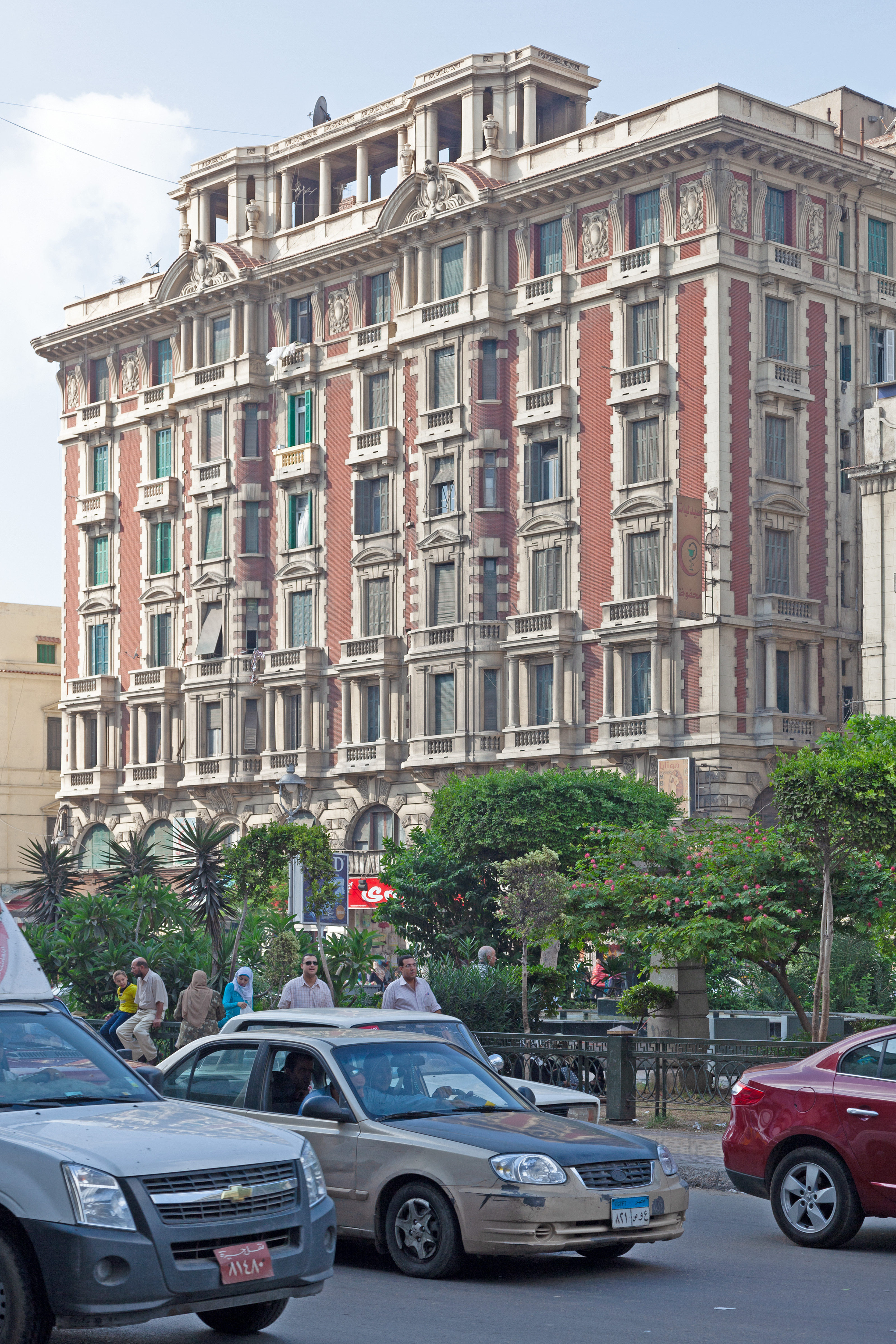 Building at the north-west side of the Tahris square, Alexandria, Egypt